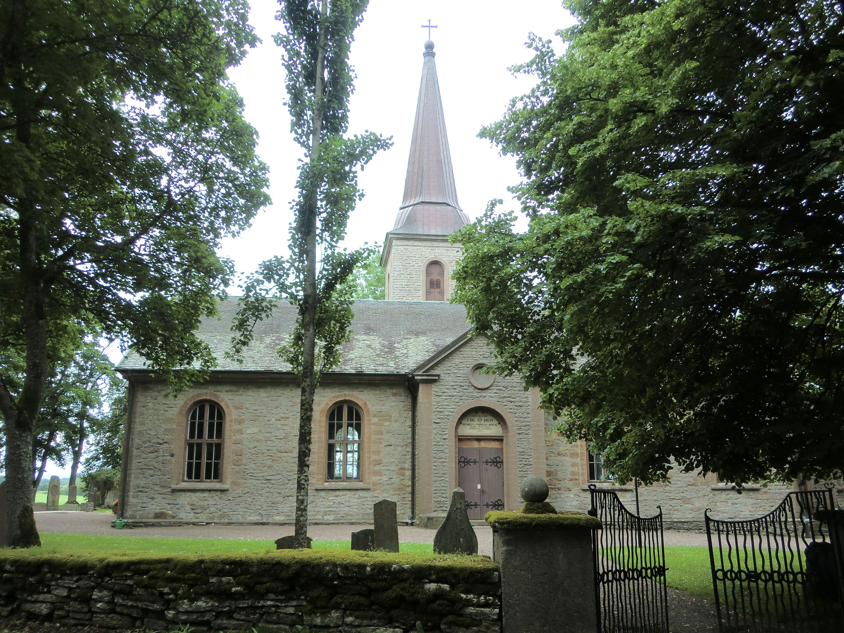 Medelplana church, Kinnekulle, Sweden